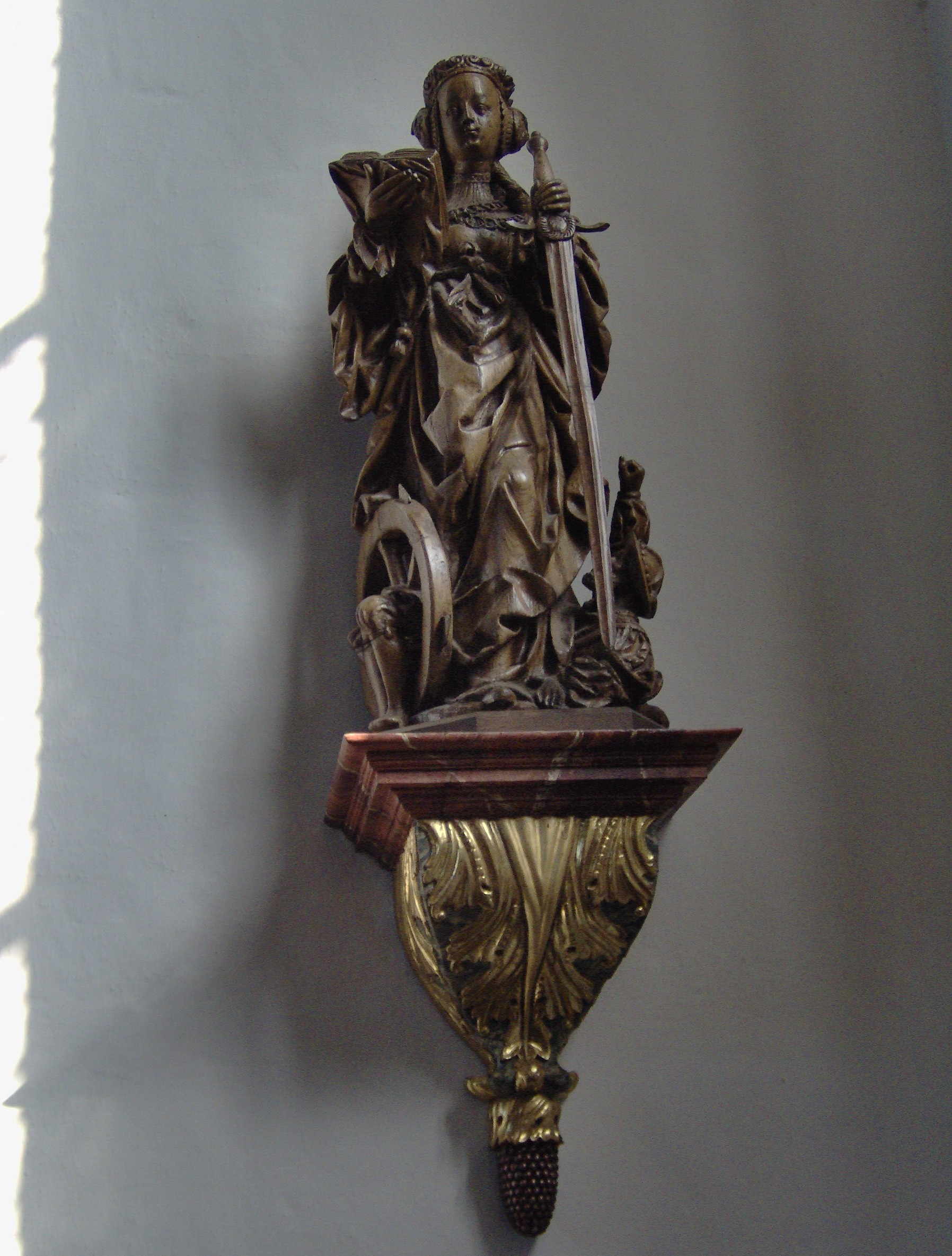 Wooden sculpture of Saint Catherine of Alexandria in the catholic Sankt Franziskuskirche of Zwillbrock, near Vreden, North Rhine-Westphalia, Germany